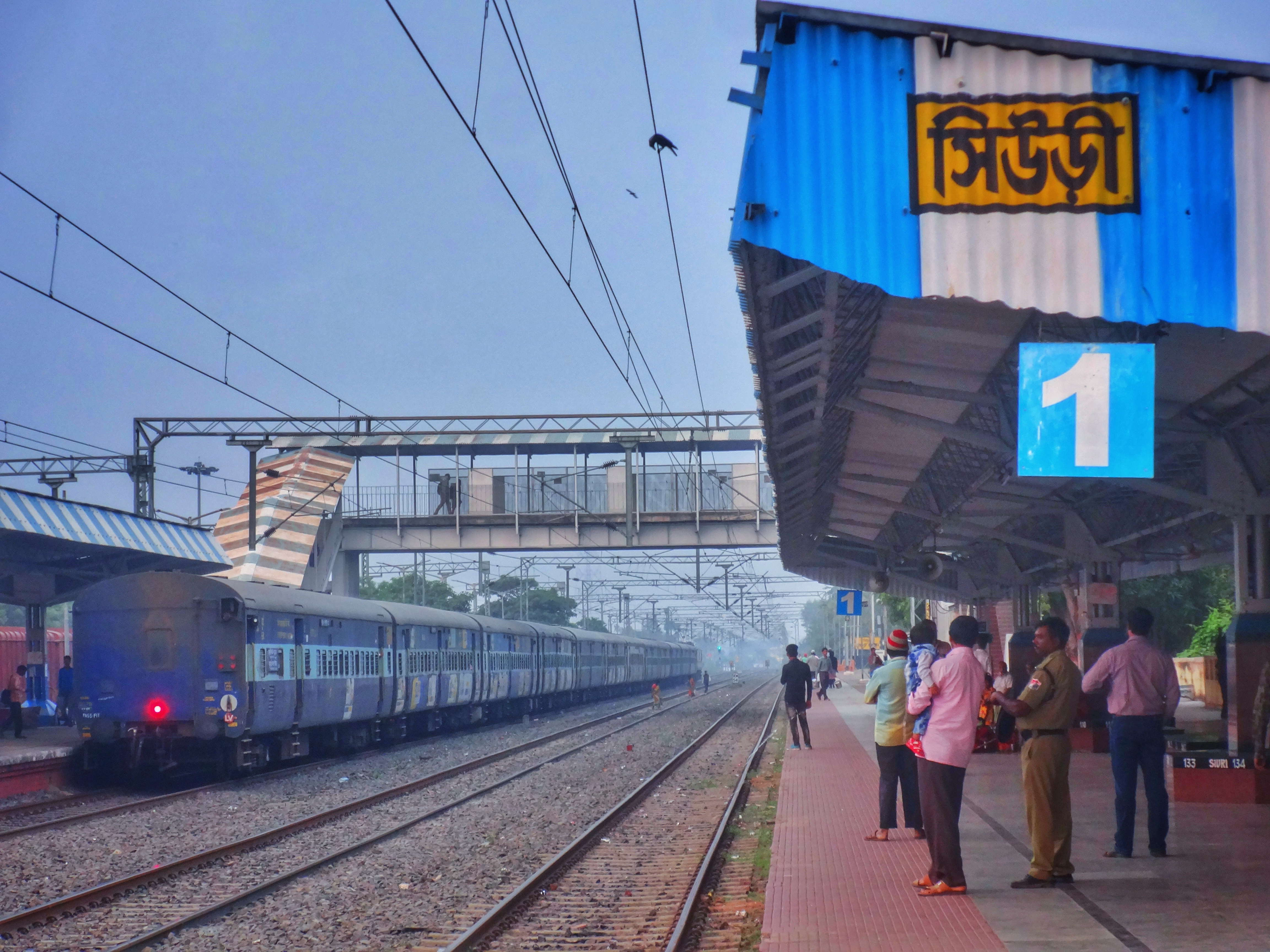 DN Mayurakshi Fast Passenger at Siuri